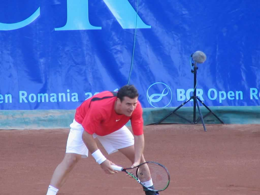 Made by me with a JVC camera.